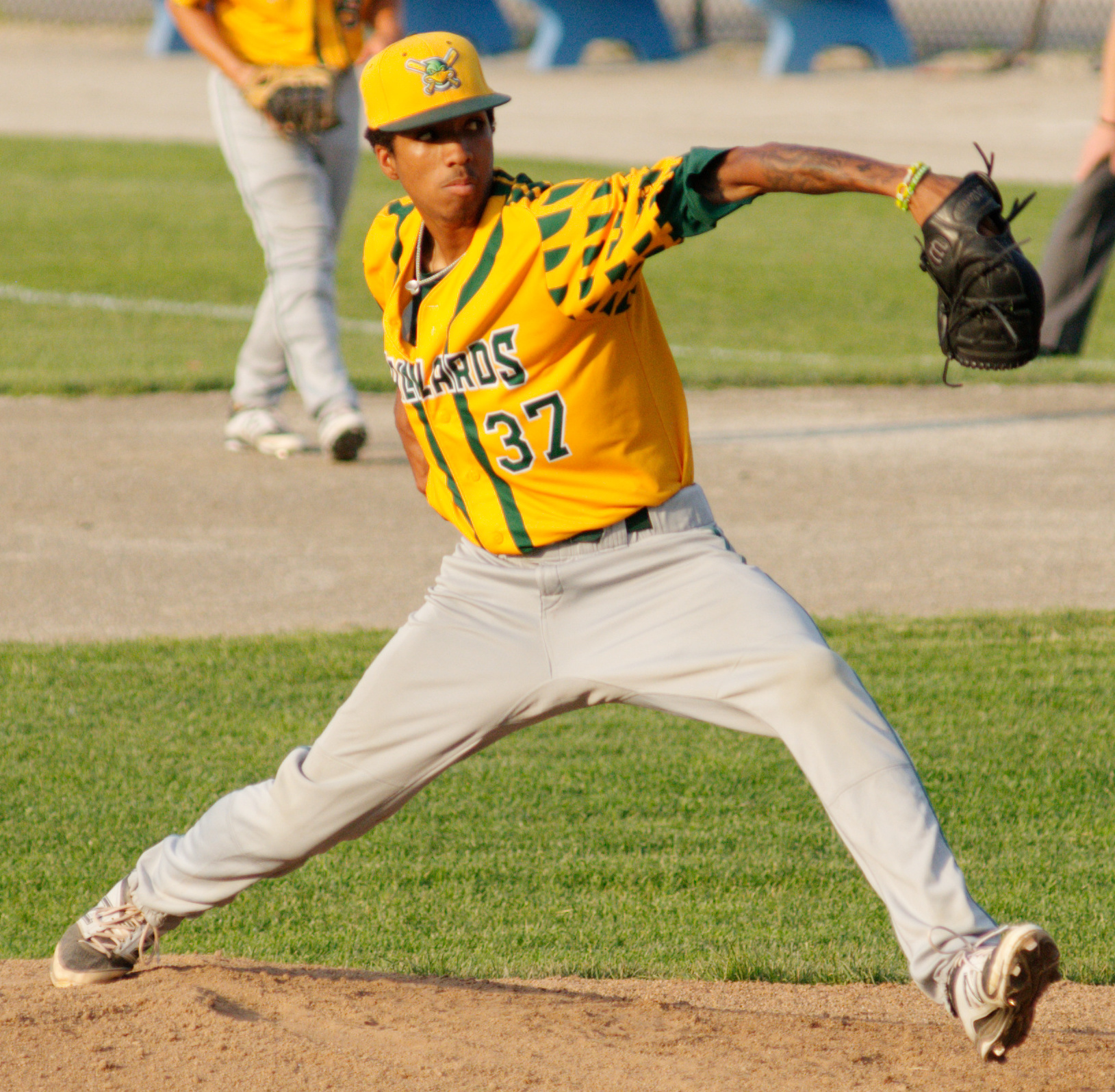 Color version of File:Sterling Sharp (14200921199).jpg